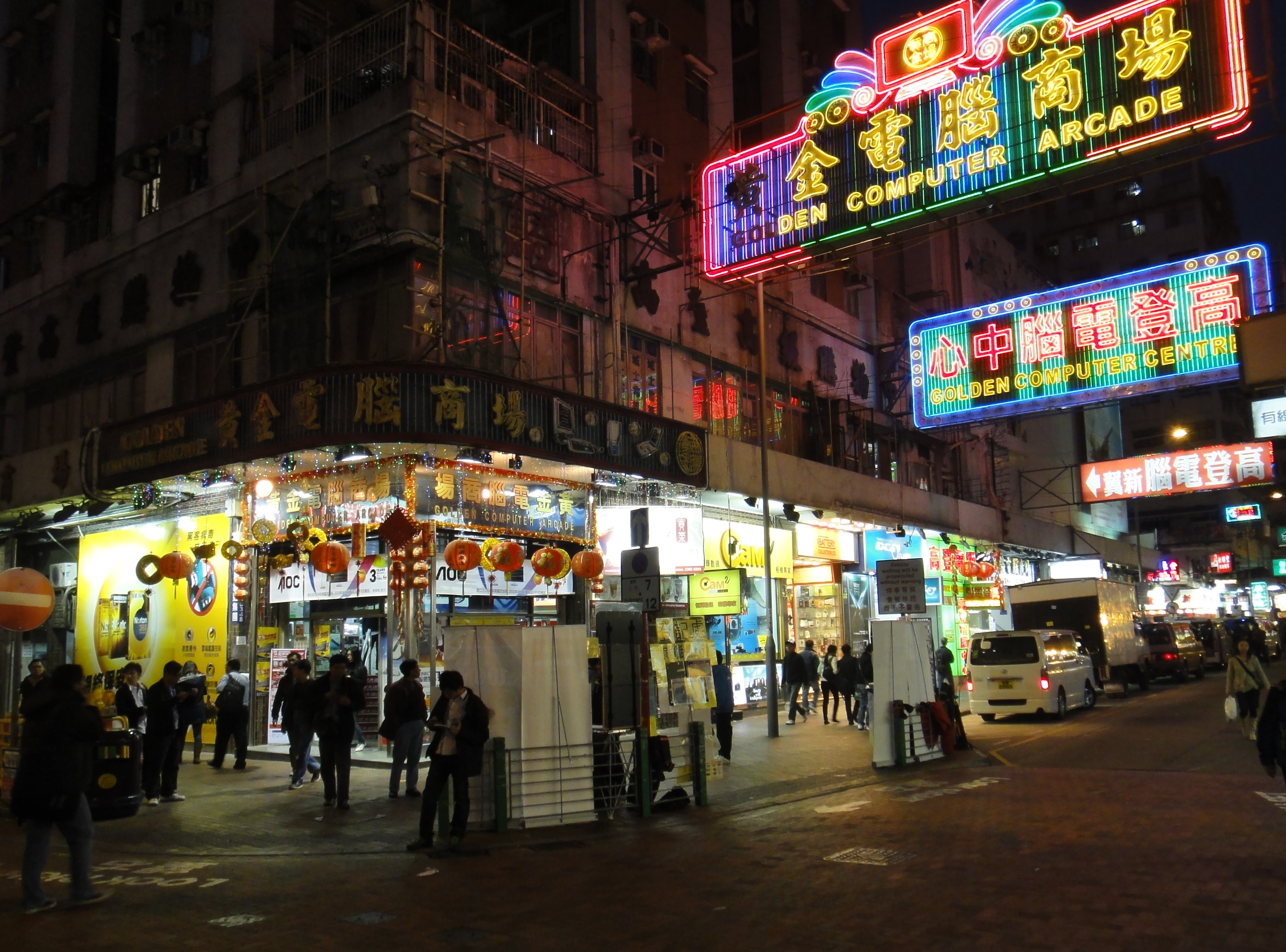 Front of Golden Computer Center, Sham Shui Po